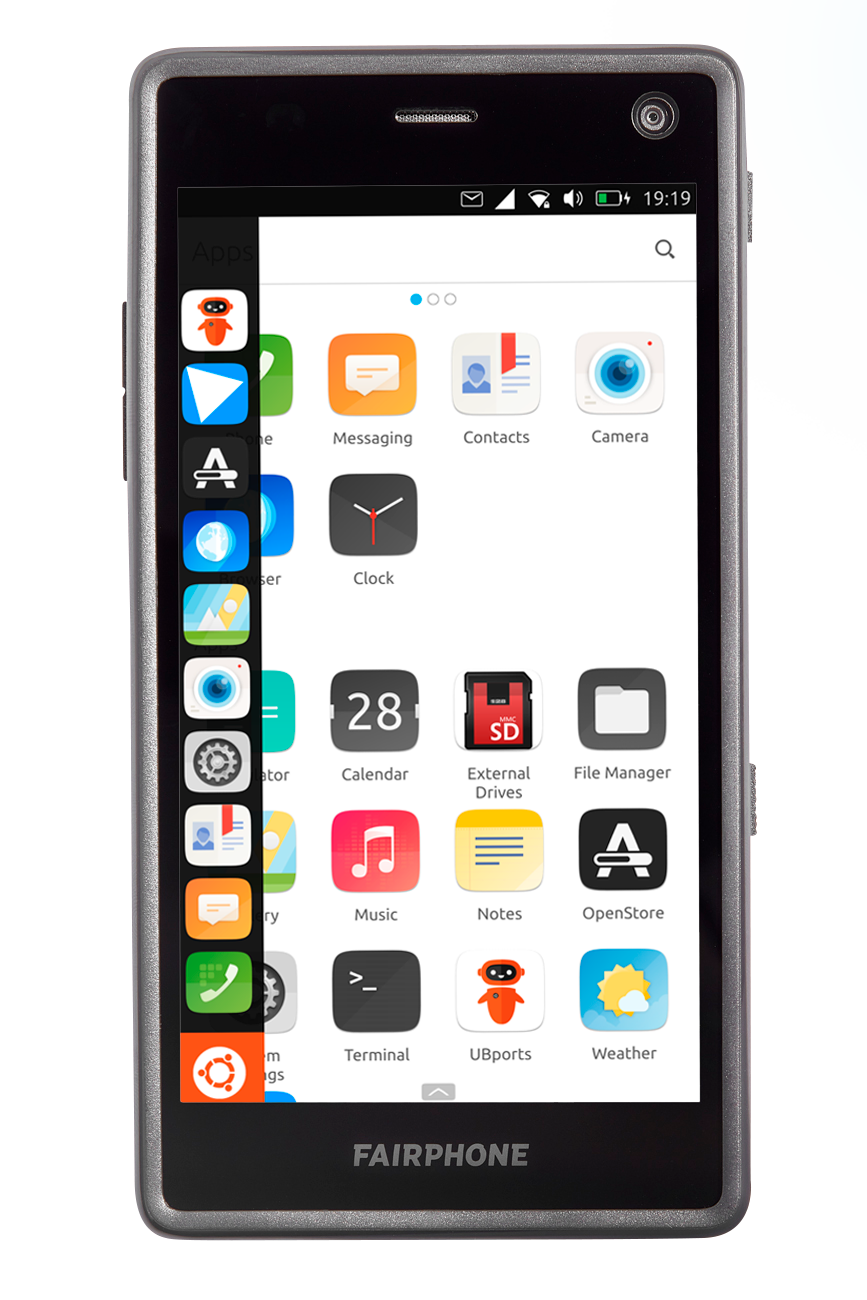 Fairphone 2 showing the Ubuntu Touch launcher and sidebar.